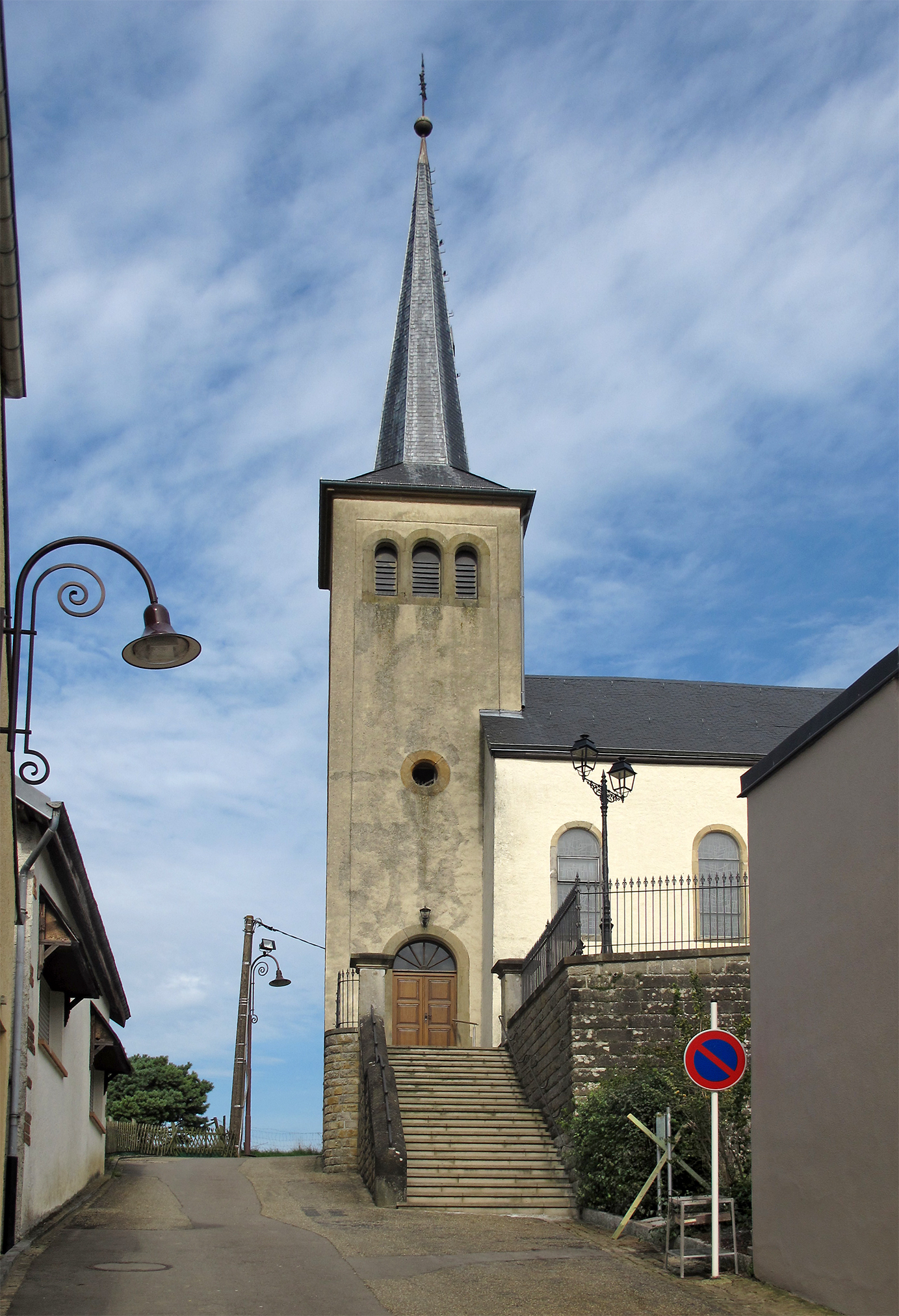 Church of Buschdorf, Luxembourg